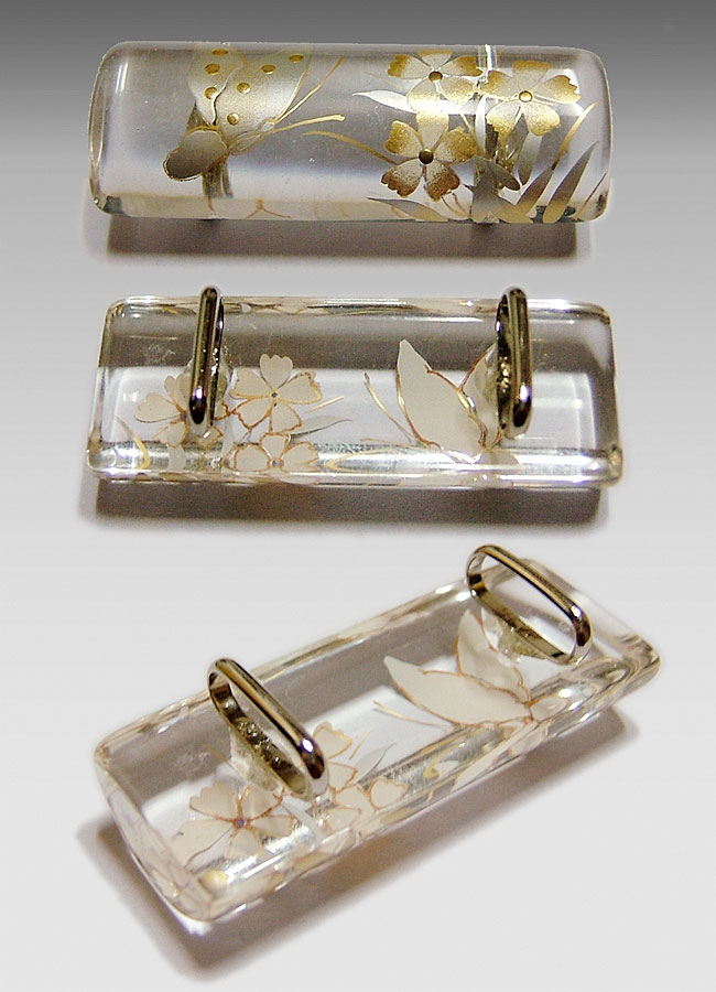 An Example Of An Obidome of A String passed Through Type, Which Appeared In Around 1892 And Then Became A Main Current.